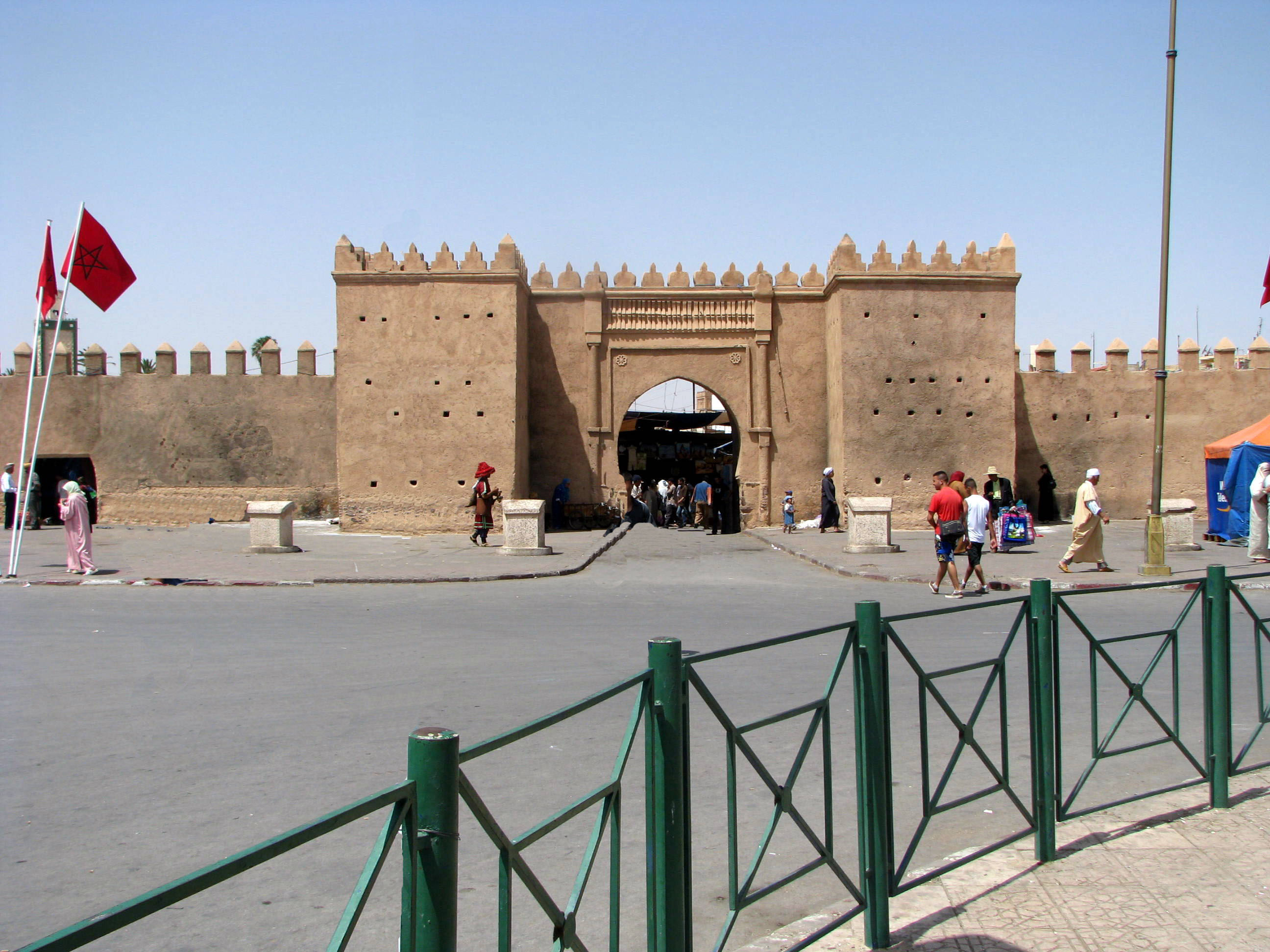 Oujda, the Door of Sidi abdel wahab